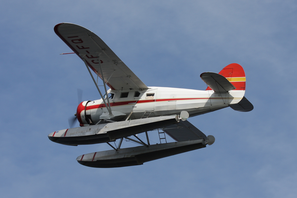 CF-FQI Flying Overhead